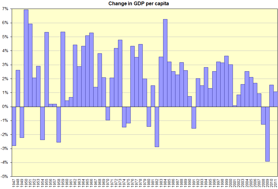 Change in US GDP per capita